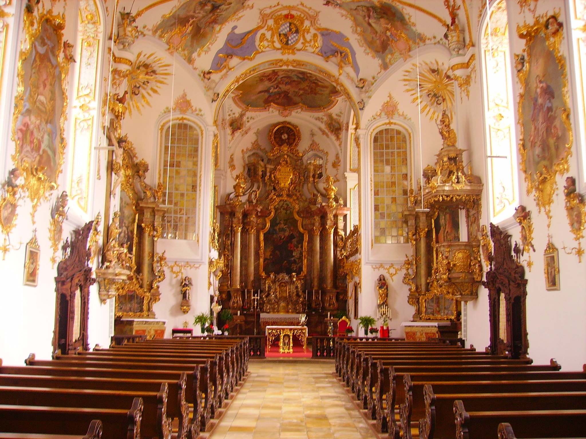 Nave of the School Church, Amberg